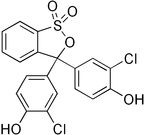 chemical structure of chlorophenol red